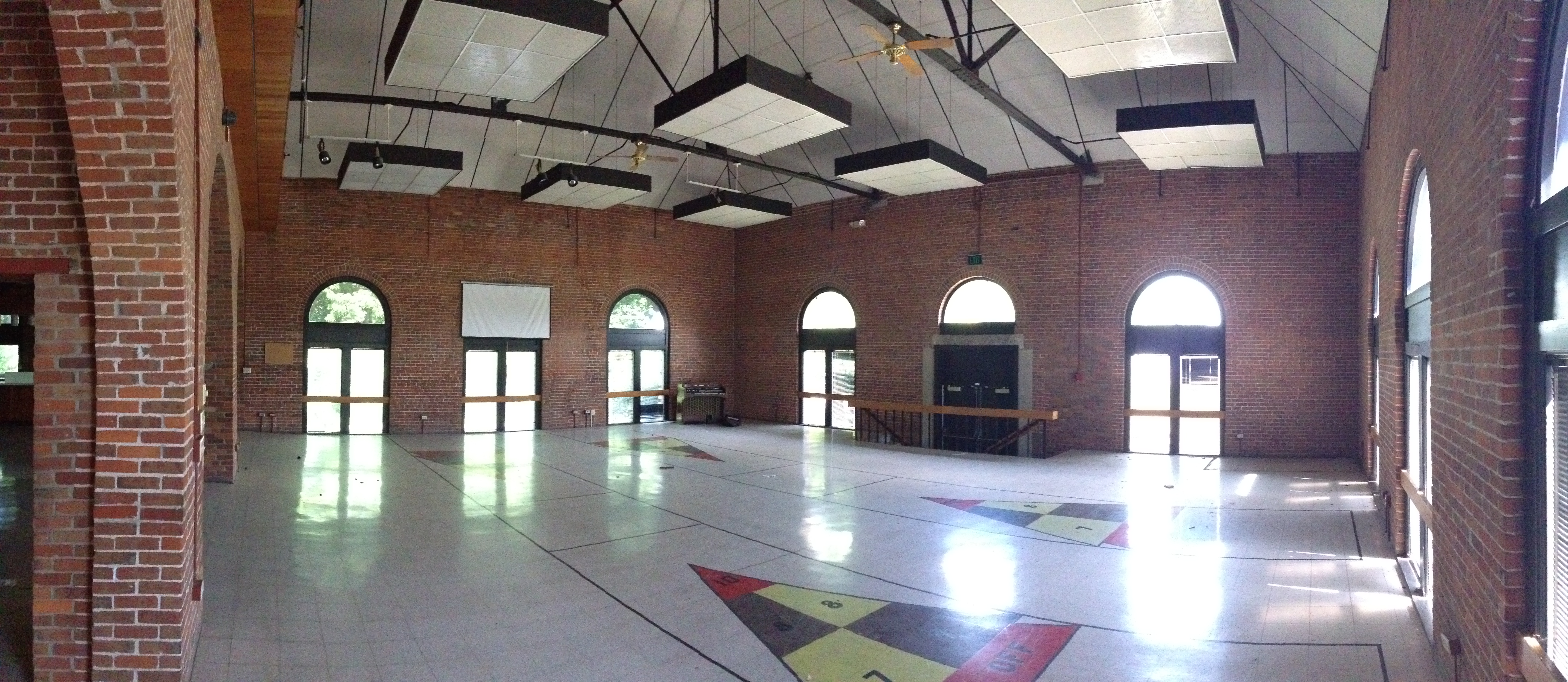 This image shows the interior of the main room of the Columbus Power House as of 2013, after the Columbus Senior Center moved out.